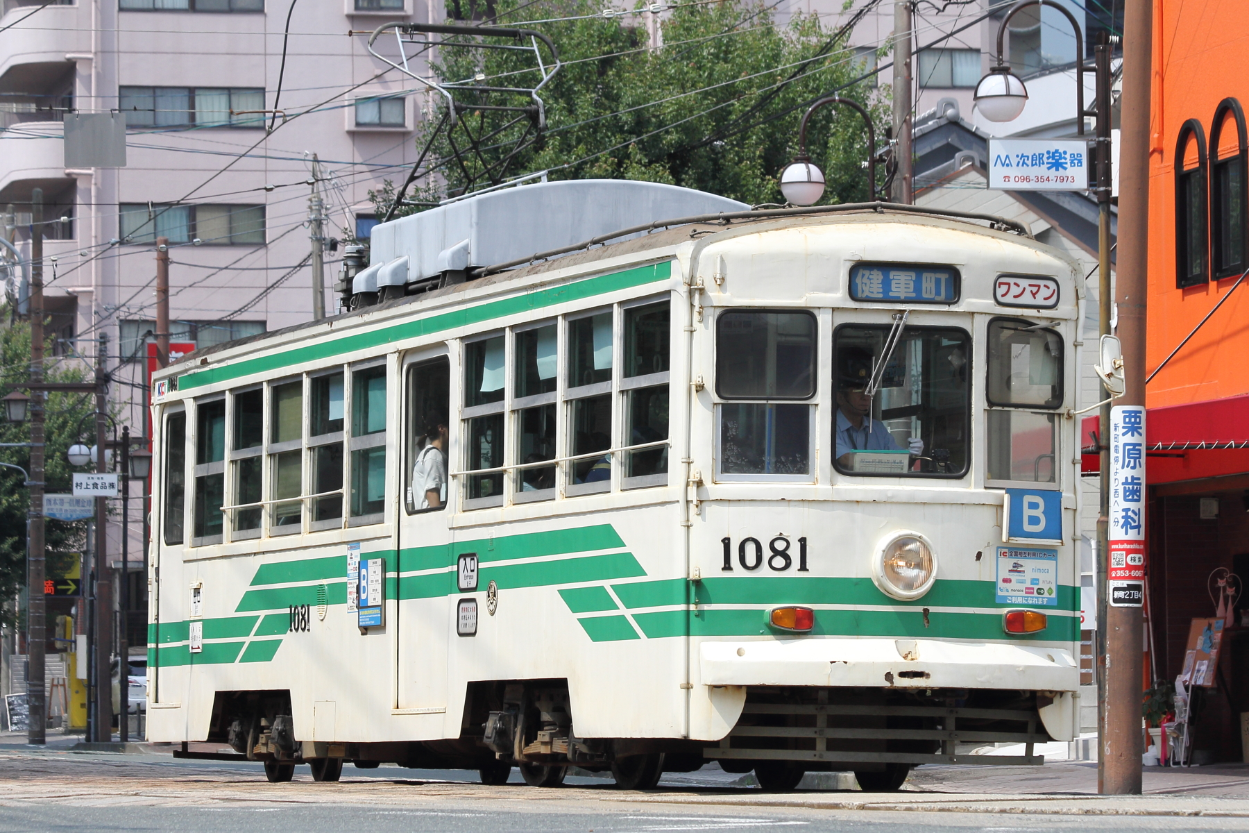 Kumamoto City Tram No.1081